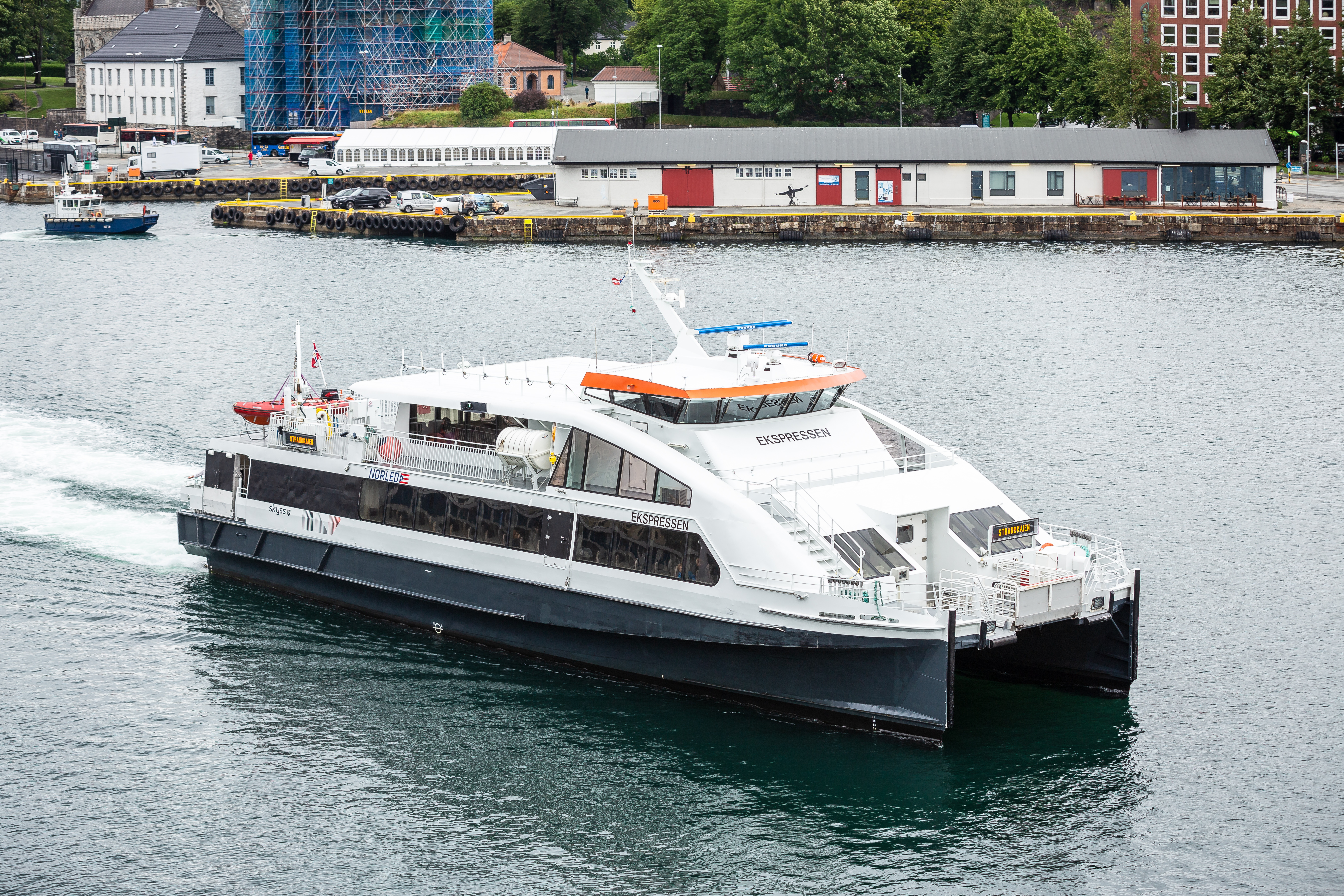 From Fjordsteam 2018 . The maritime heritage festival took place between August 2 and August 5 2018 in Bergen, Norway.